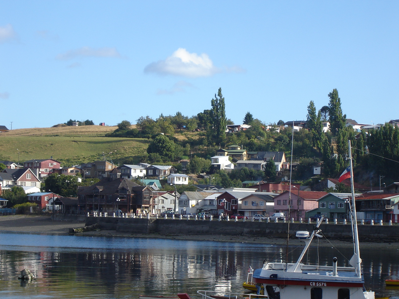 Chonchi desde el puerto